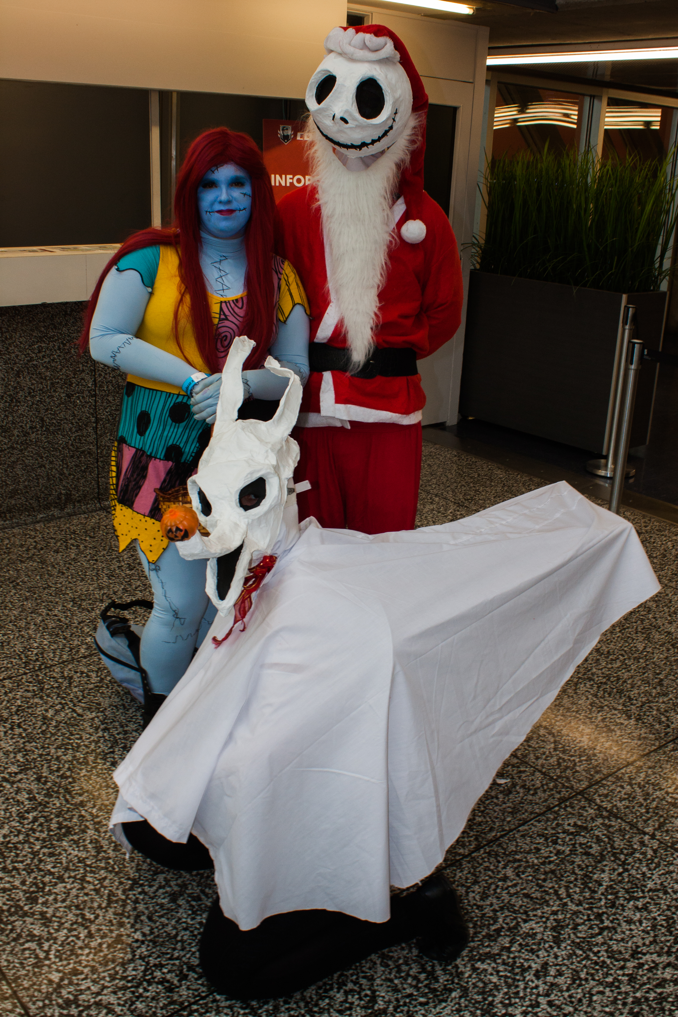 Cosplay on Friday, day one, of the Montreal Comiccon 2016.